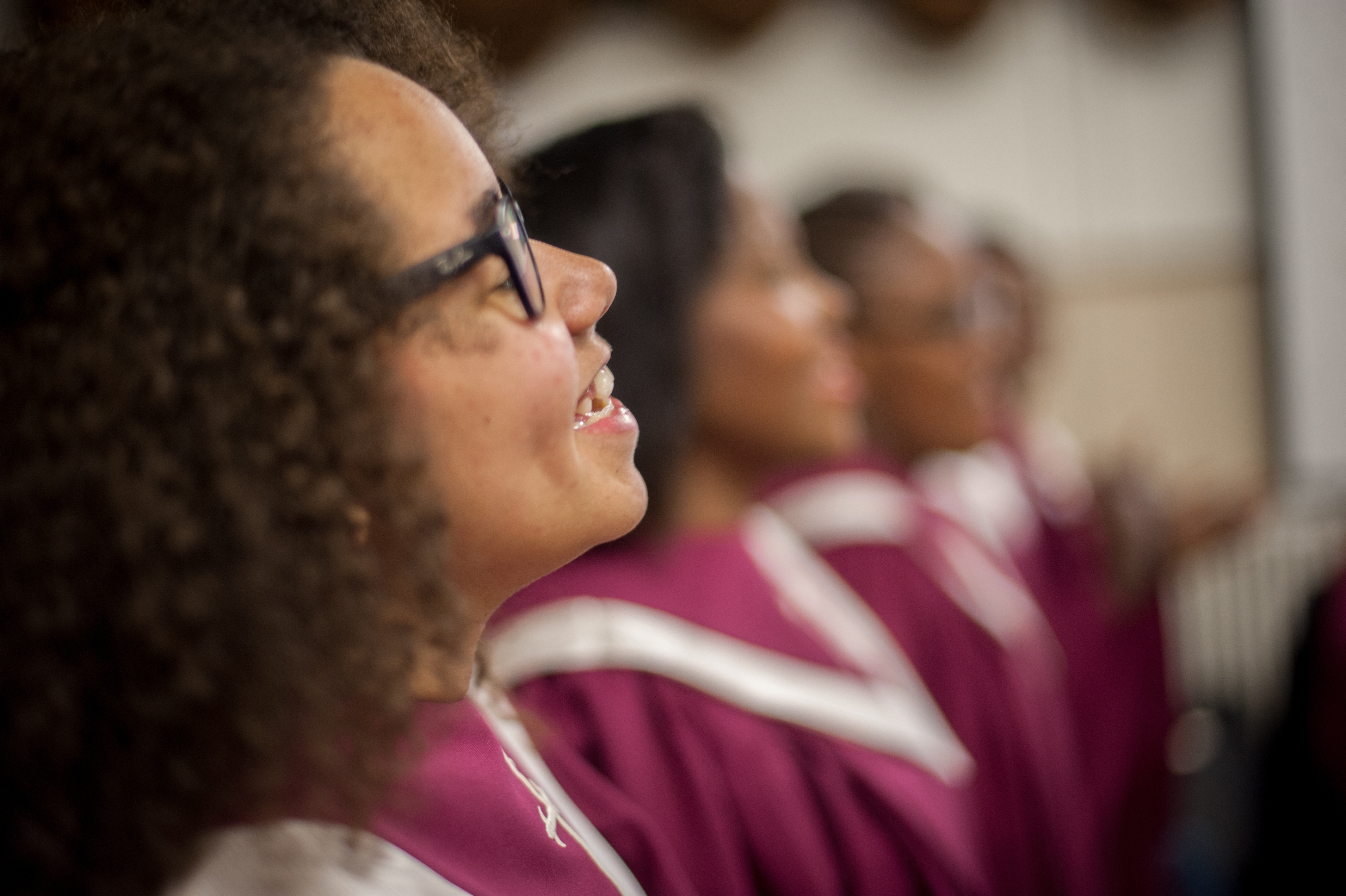 Tracy Naveau, a member of the Voices of Victory choir sings traditional gospel music during a nondenominational event to inspire fellowship between the members of the U.S. military and local communities in Mons, Belgium, Feb. 26, 2016. Gospel music has historical roots in traditional slave spirituals, which were songs of sorrow, but also jubilation at the thought of freedom. (U.S. Army photo by Staff Sgt. Bernardo Fuller) Unit: American Forces Network Superstation Sembach DVIDS Tags: Joint; Department of Defense; NATO; Africa; Guitar; international; English; historical; U.S.; Multinational; DoD; song; songs; faith; Black; African American; freedom; play; communicate; Gospel; spiritual; God; Pope; spirit; Belgium; Jesus; Gospel Explosion; African American History Month; slavery; veterans; singing; history; Black History Month; military; French; Air Force; music; Army; band; USAREUR; SHAPE; guitarist; Bernardo Fuller; together; Gospel music; North Atlantic Treaty Organization; Supreme Headquarters Allied Powers Europe; Mons; Christianity; Black history; Host Nation; Christ; Jesus Christ; inspire; intensity; SHAPE High School; significance; rollercoaster; Sheldon Powdar; Master Sgt. Sheldon Powdar; Yadriel Rivera De Jesus; Voices of Victory Choir; Voices of Victory; SHAPE American High School; faiths; spirituals; negro spiritual; spiritual music; sorrow; integral; emancipation; Gospel community; black community